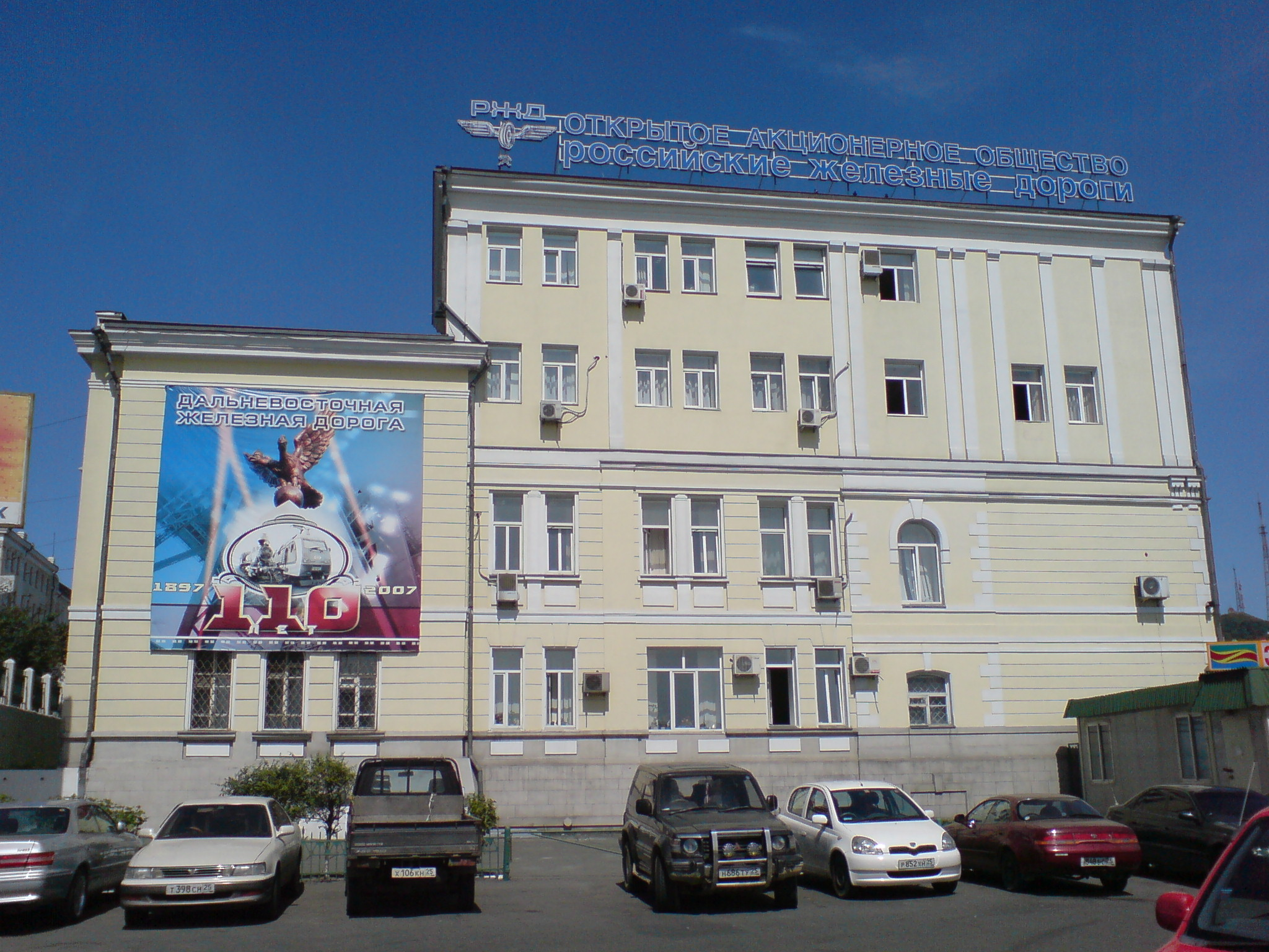 Vladivostok, Administration Building of the Vladivostok branch of the Far Eastern Railway.